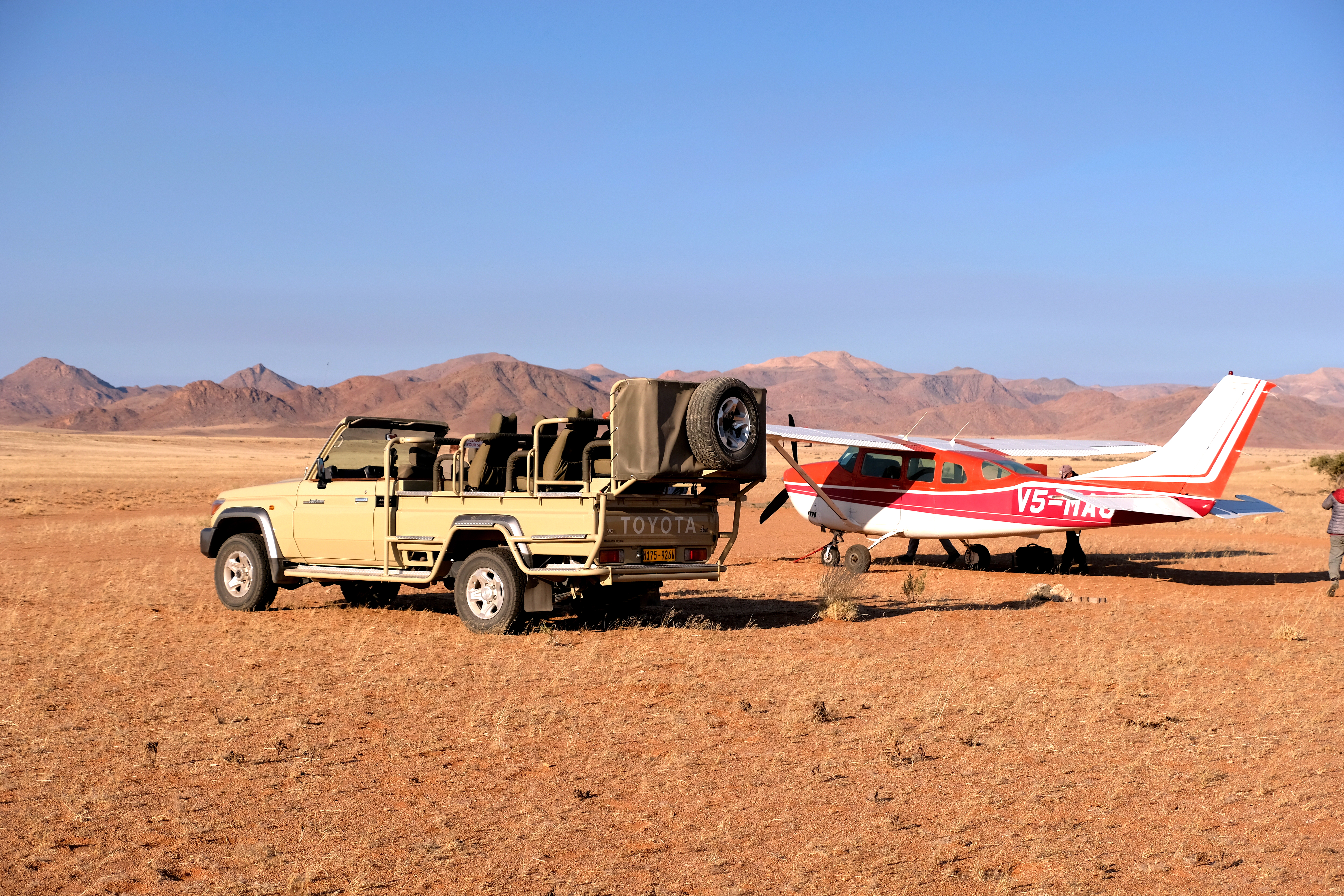 V5-MAG at Namib Desert Lodge, Namib Desert, Namibia (2018)